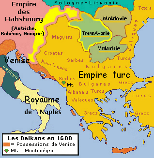 Historic map of Balkan peninsula, 1600